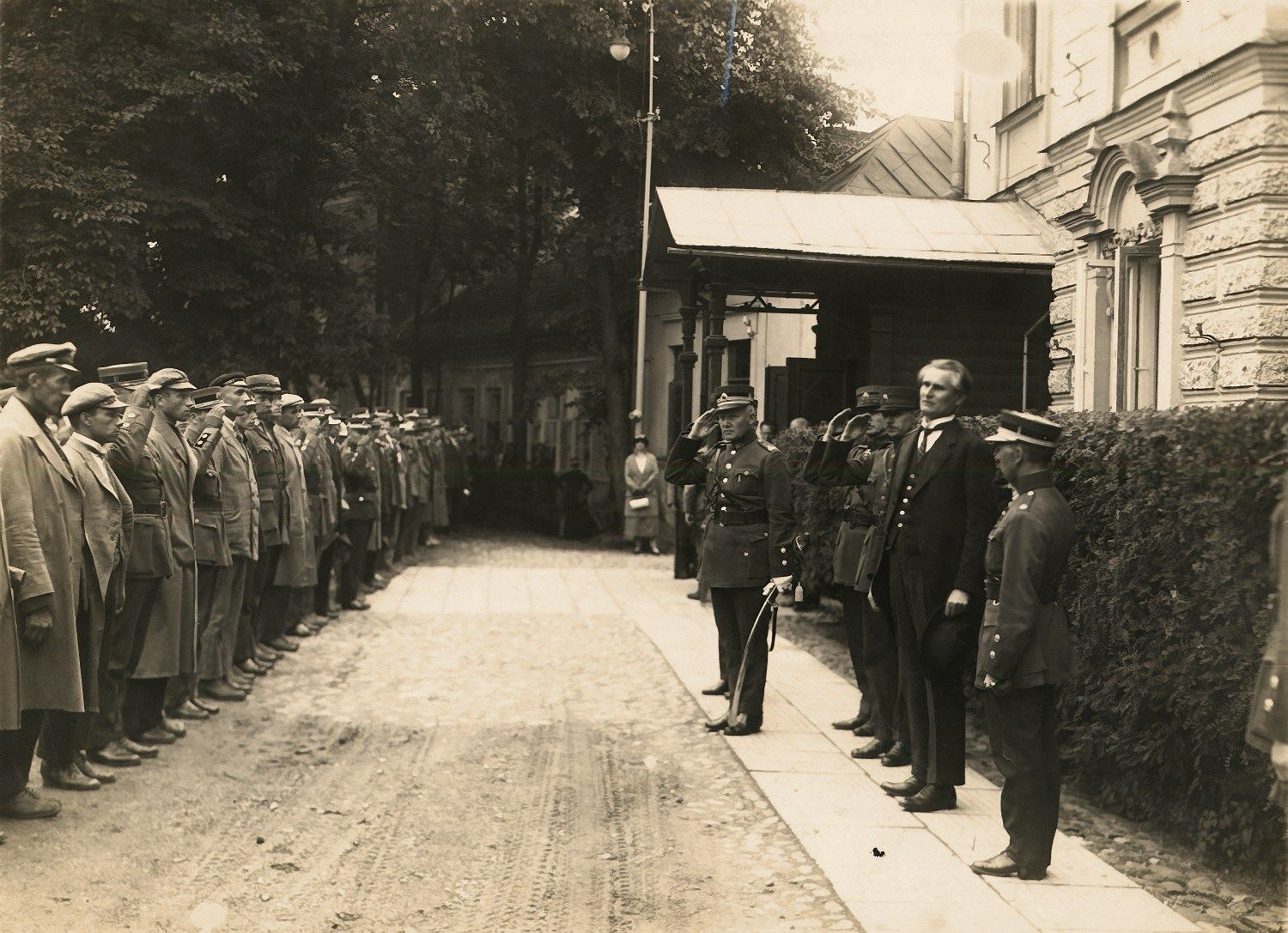 President Kazys Grinius congratulating the Lithuanian Riflemen's Union members near the Presidential Palace in Kaunas, Lithuania.